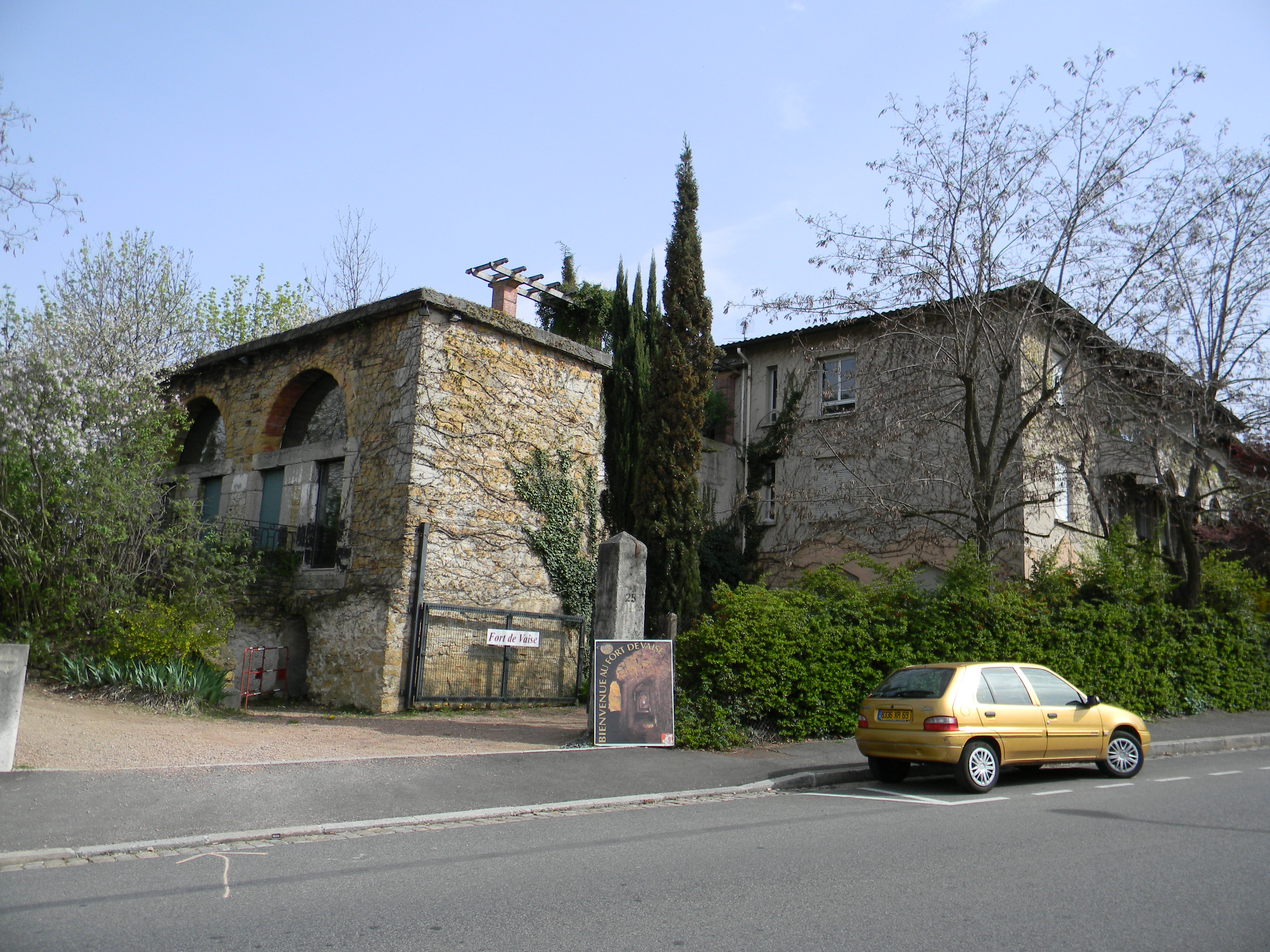 The main entrance of the Vaise fort in Lyon